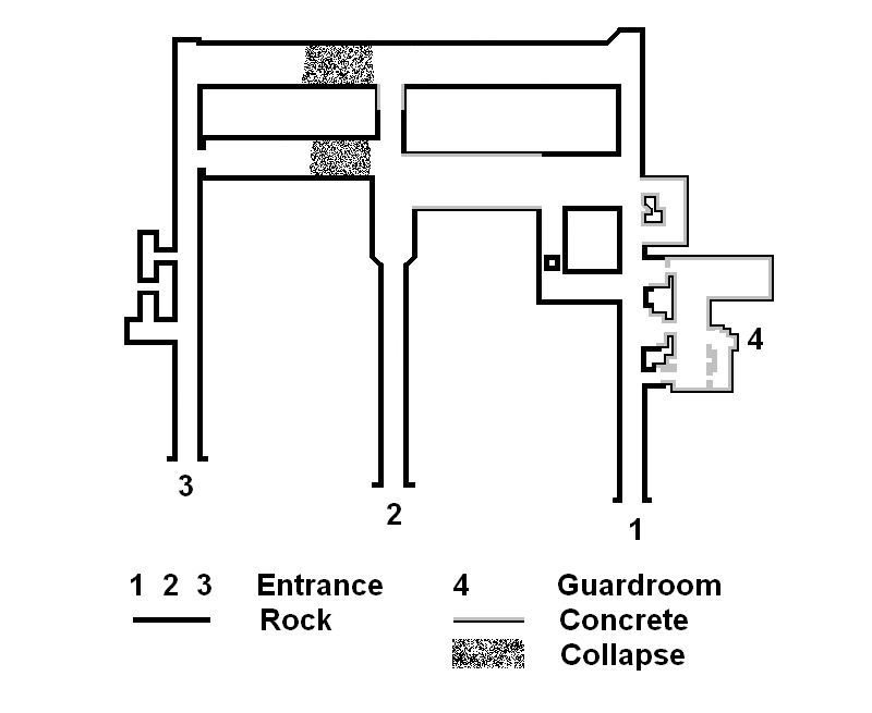 Diagram of the underground complex Rzeczka, a part of the project Riese.